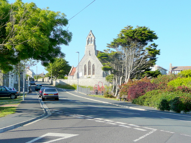 Avalanche Road, Southwell The church of St. Andrew was built as a memorial to the lost mariners of 1210-ton three-masted iron sailing ship, The Avalanche, built 1874. She was en route for Wellington, New Zealand in September 1877 with a cargo of pottery and glass.